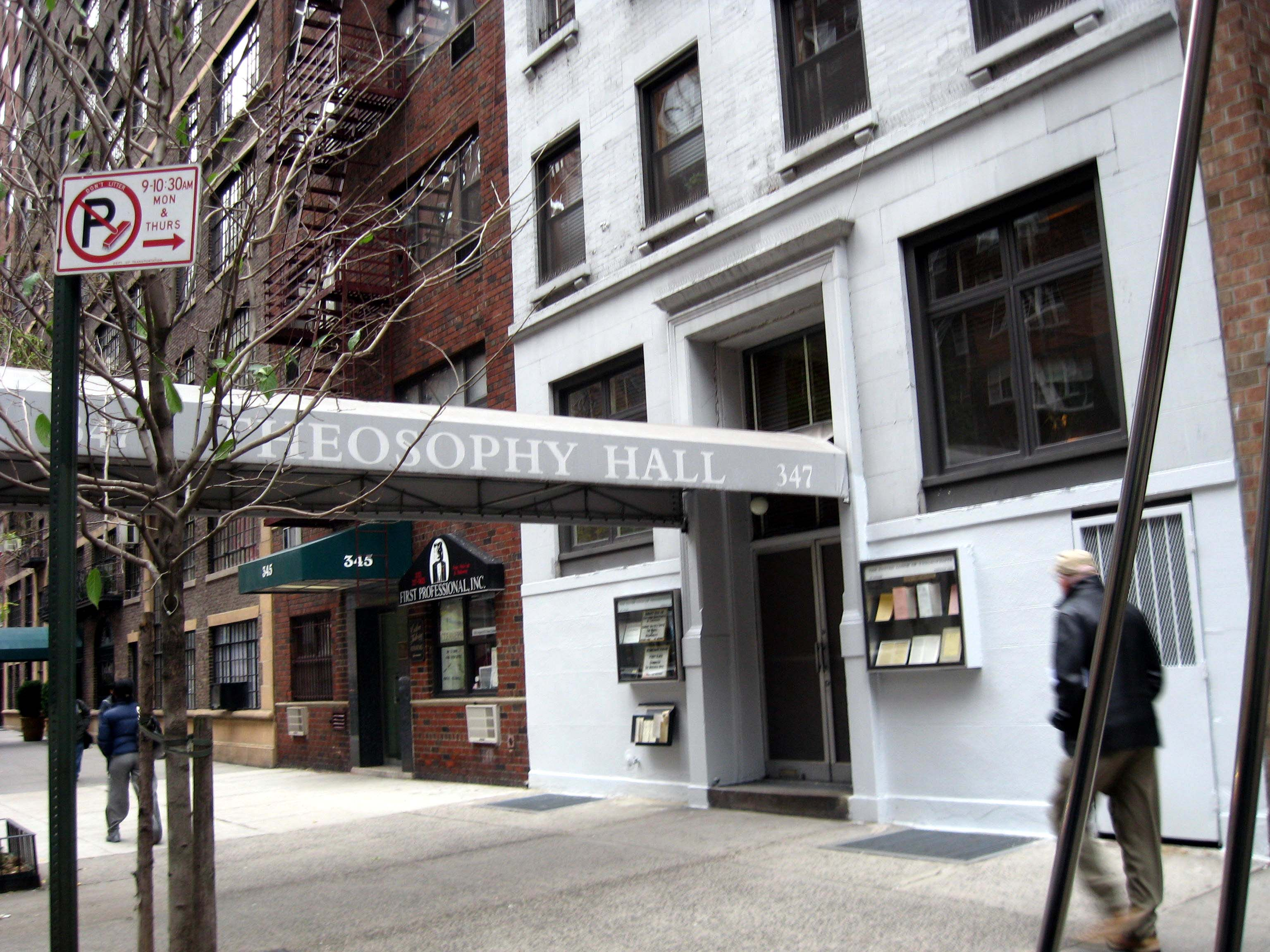 Looking northwest along East en:72nd Street (Manhattan) at Theosophy Hall on a cloudy afternoon